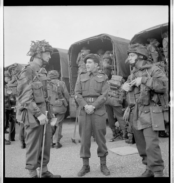 Personnel of the 1st Canadian Parachute Battalion, about to leave for the D-Day transit camp, England, May 1944